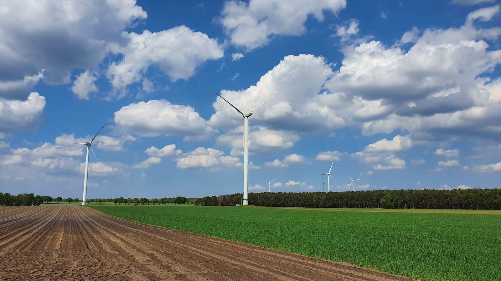 Heidenau wind farm